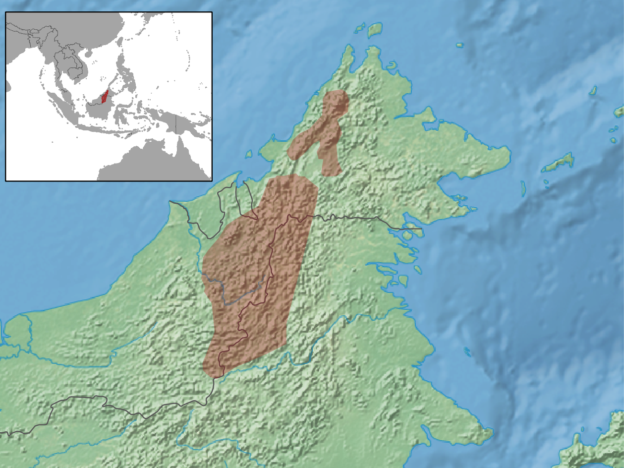 geographic distribution of Callosciurus orestes